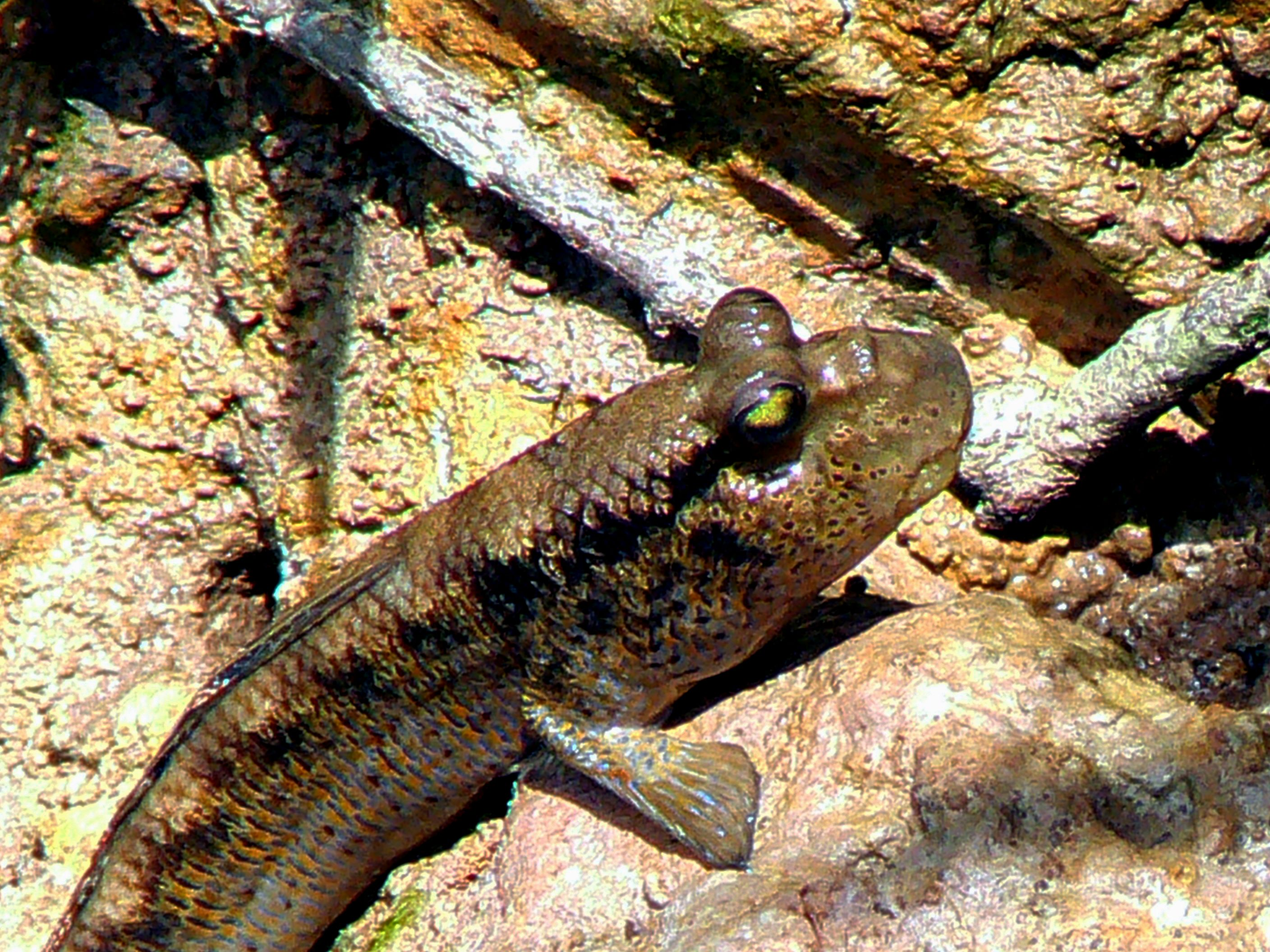 Giant Mudskippers, (Periophthalmodon schlosseri)